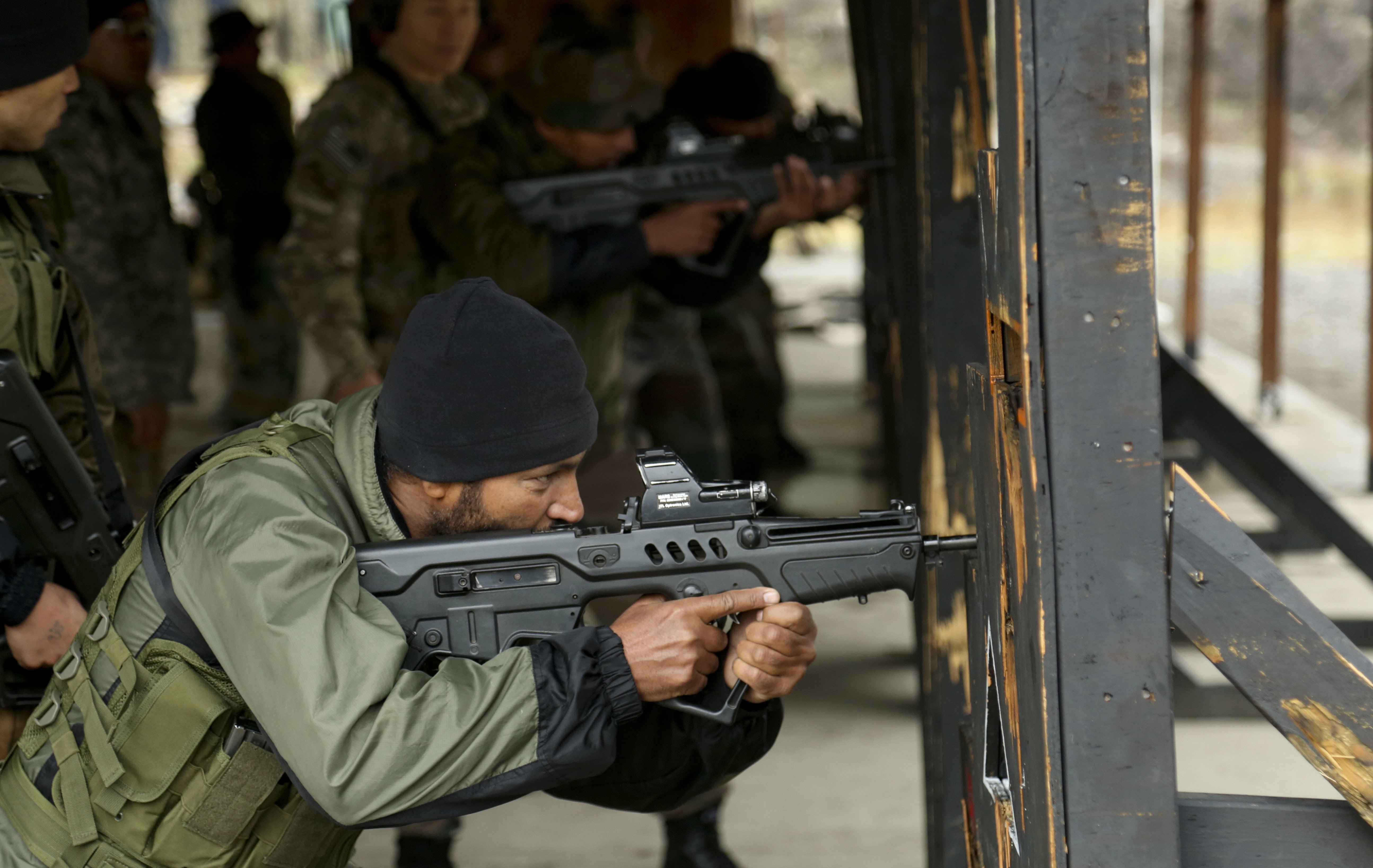 Green Berets assigned to 2nd Battalion, 1st Special Forces Group (Airborne), conducted weapon training Jan 23, as part of a joint training exercise with Indian Special Operation Forces at Joint Base Lewis-McChord and Camp Rilea, Oregon. It is important for both countries to learn the different weapon systems being implemented and the techniques they use to put effective rounds down range.(U.S. Army Photo by Staff Sgt. Marcus Butler)